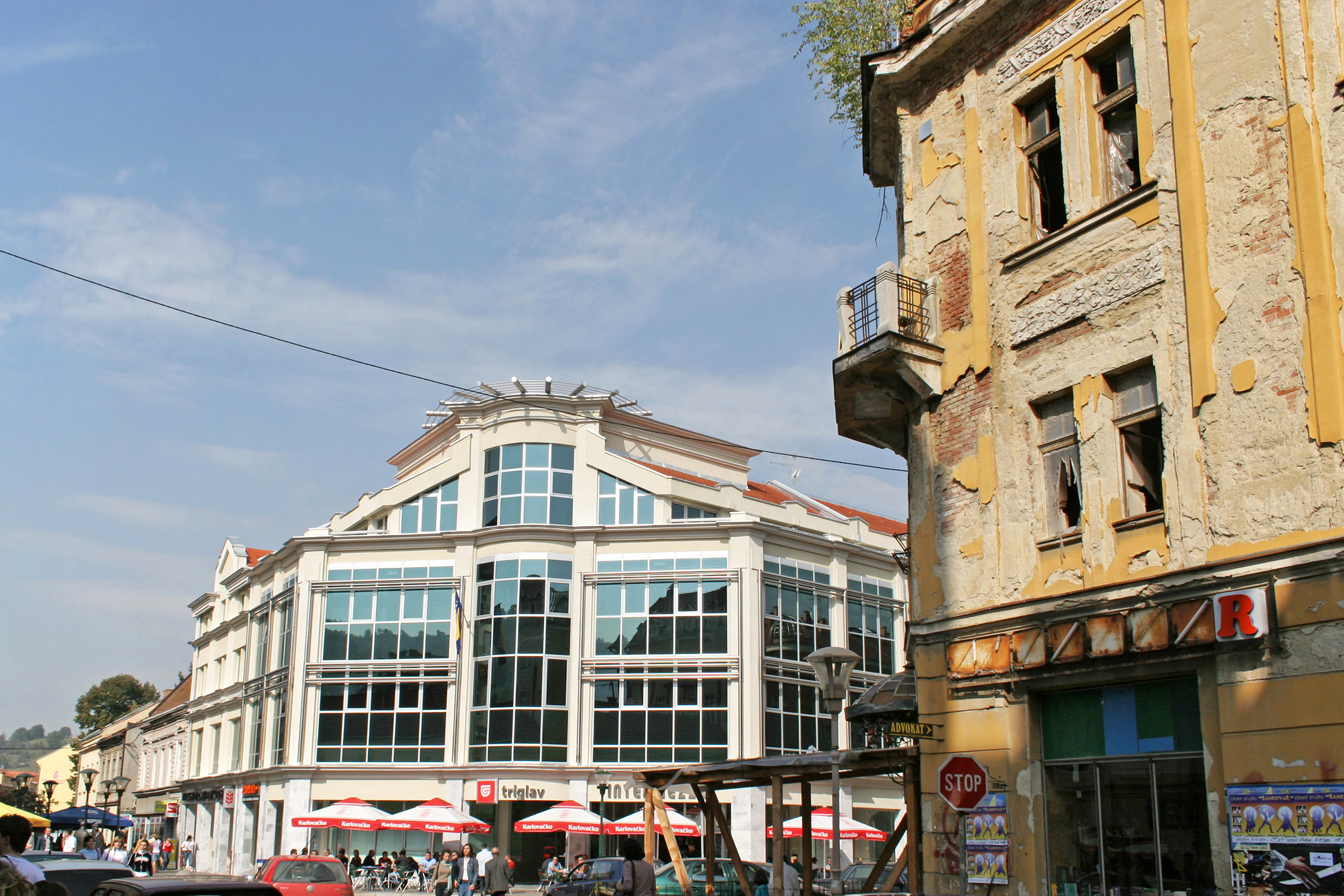 The city of Tuzla